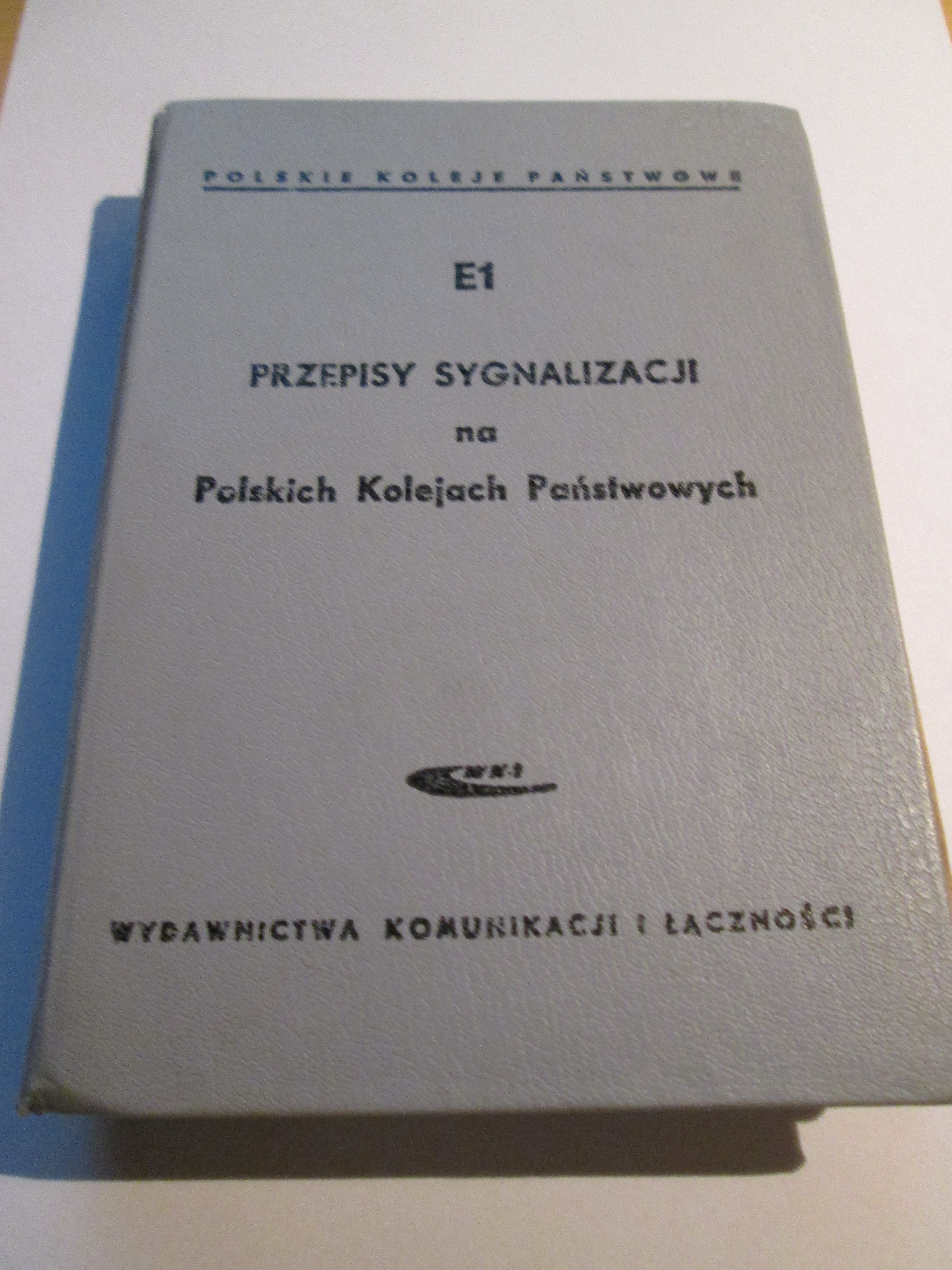 E1. Polish railways signaling rules. Communication and Telecommunication Publishing House, 1976.